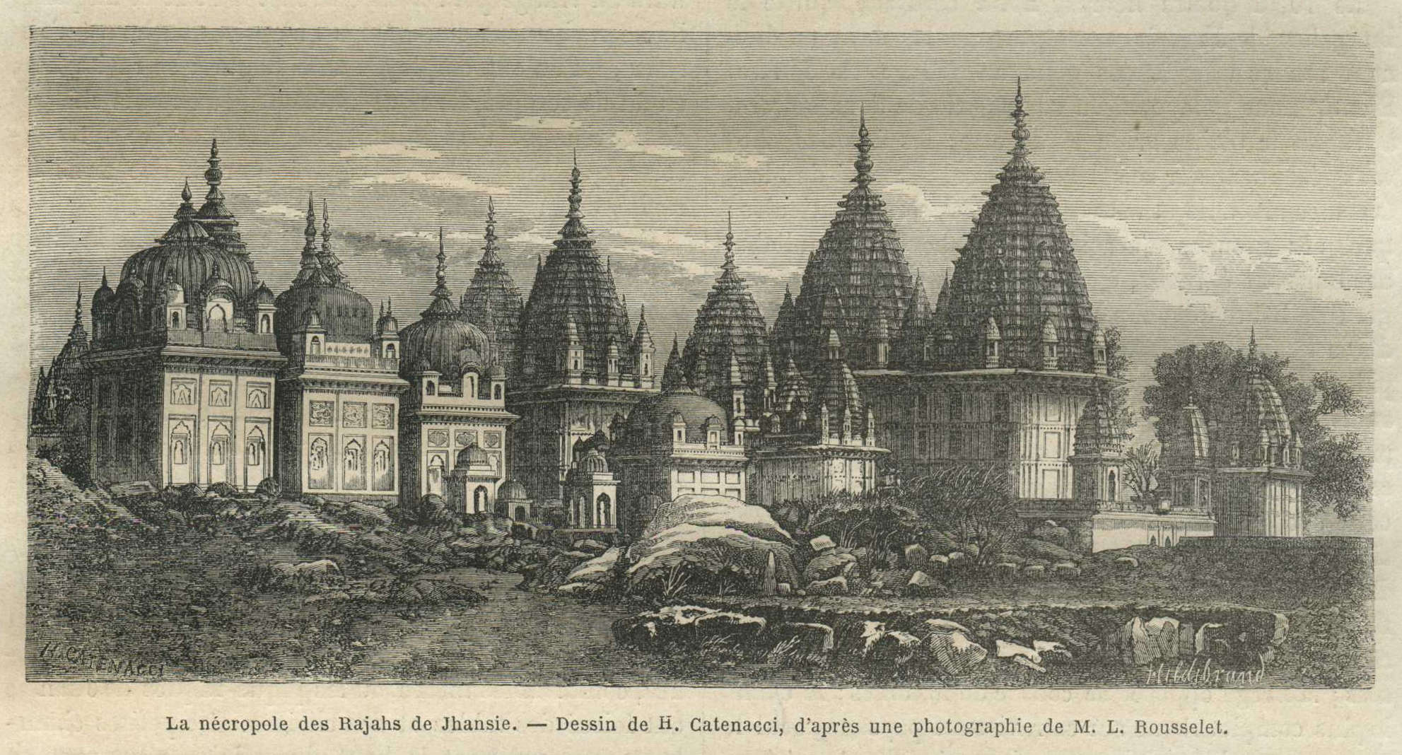 A drawing of the necropolis of the Maharajahs of Jhansi, a historical city of India in Uttar Pradesh.